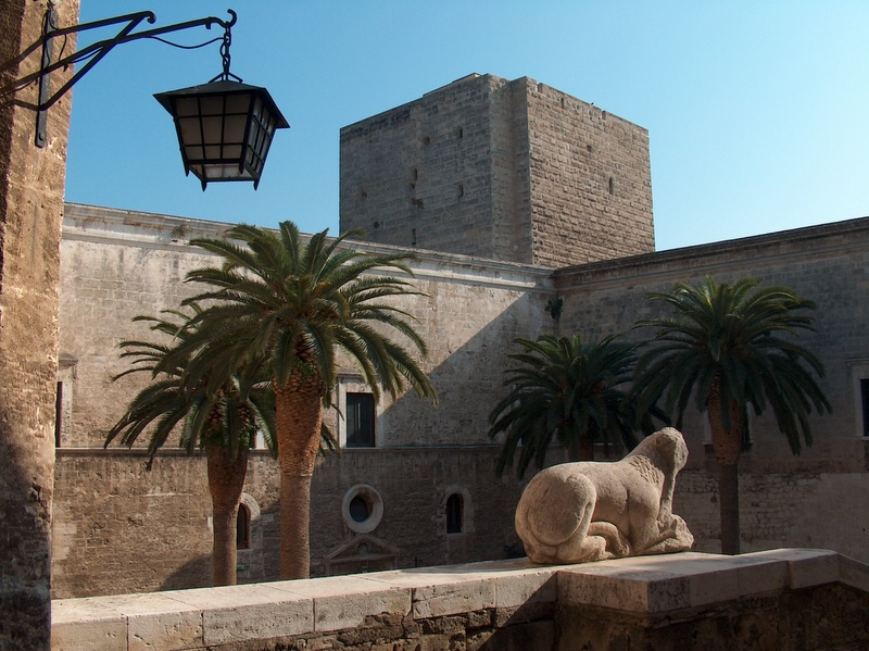 Inner courtyard of the Norman-Swabian castle.